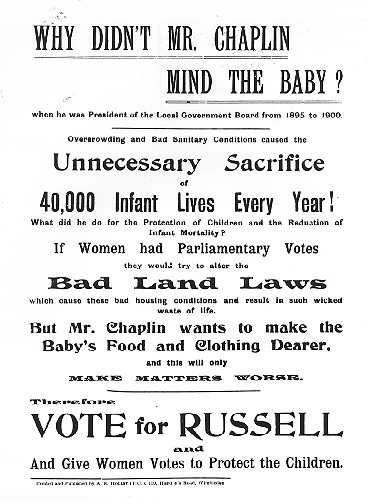 Campaign Poster of Bertrand Russell for the cause of women suffrage 1907